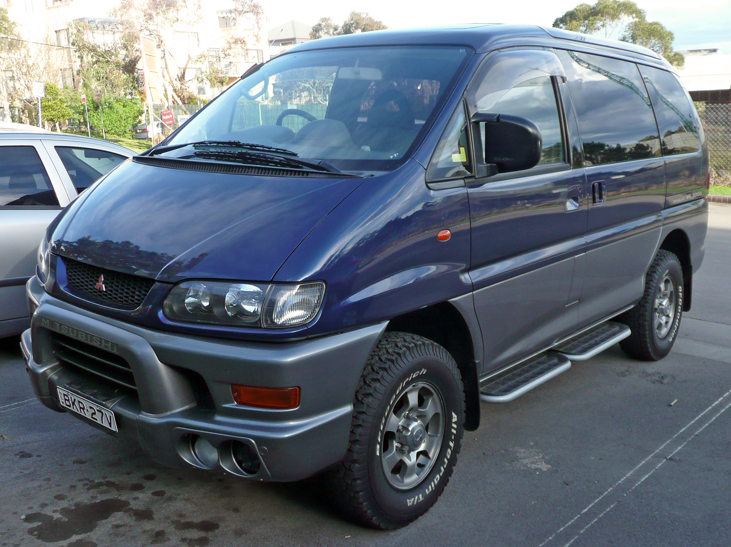 1998 Mitsubishi Delica Space Gear van (Japanese grey import). Photographed in Sutherland, New South Wales, Australia.